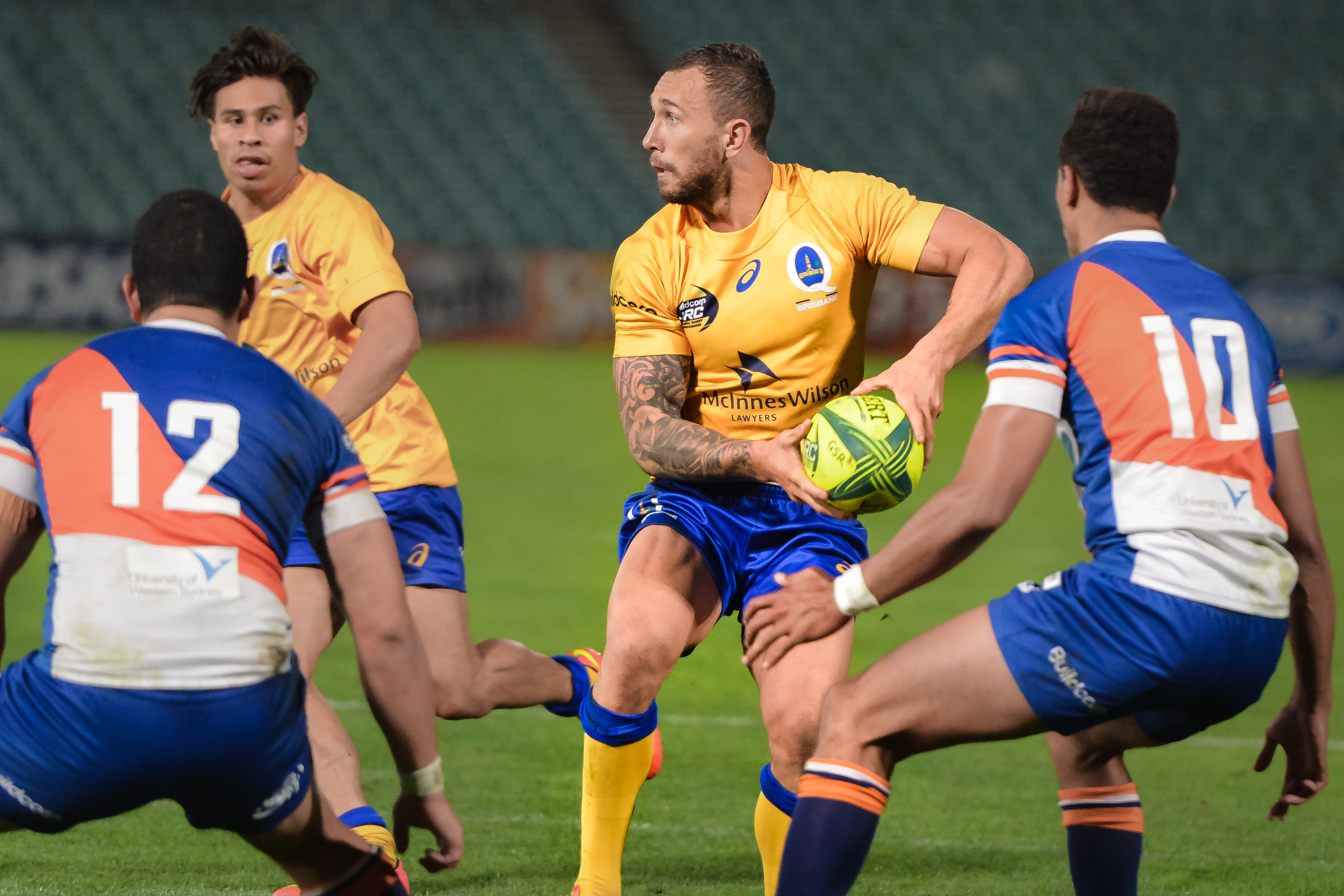 Quade Cooper playing for Brisbane City NRC Round 7 versus Greater Sydney Rams